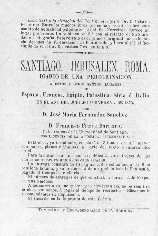 Portada del libro: Santiago, Jerusalén, Roma. Diario de una peregrinación